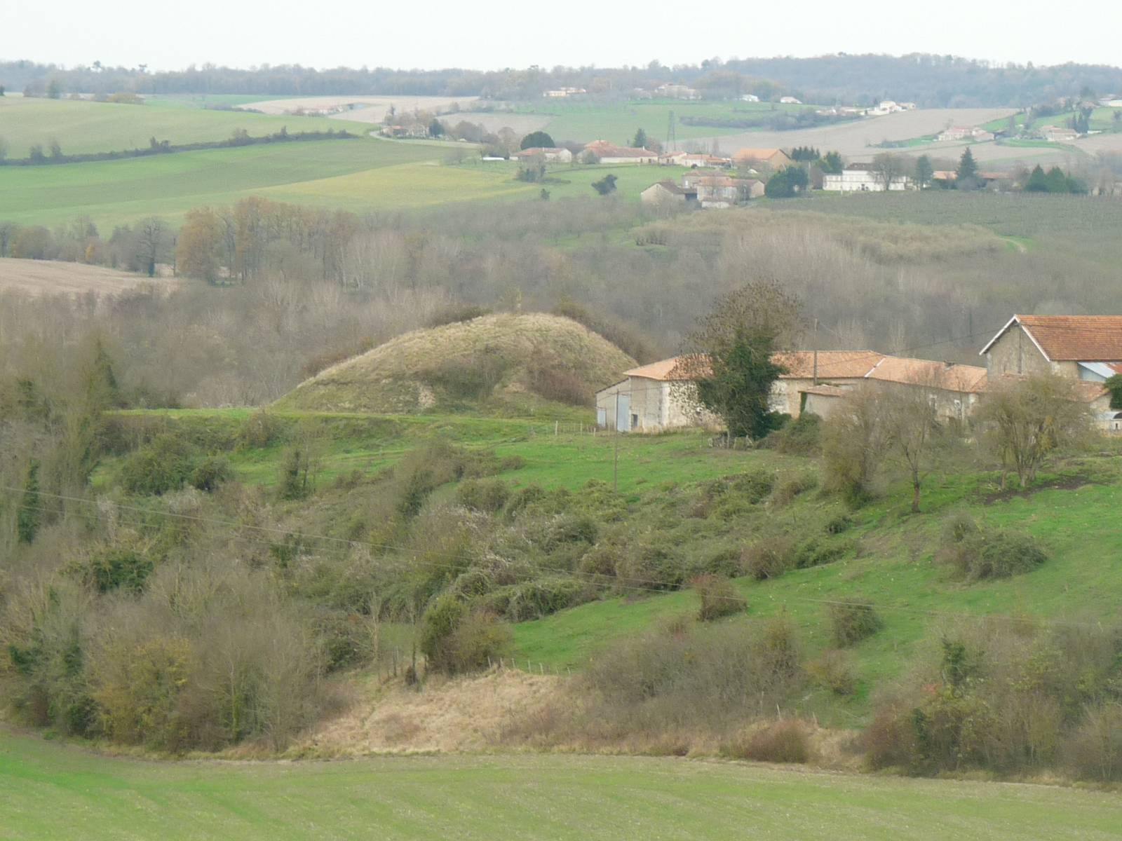 old place of Bourzac above the Lizonne valley, Nanteuil-Auriac-de-Bourzac, Dordogne, SW France